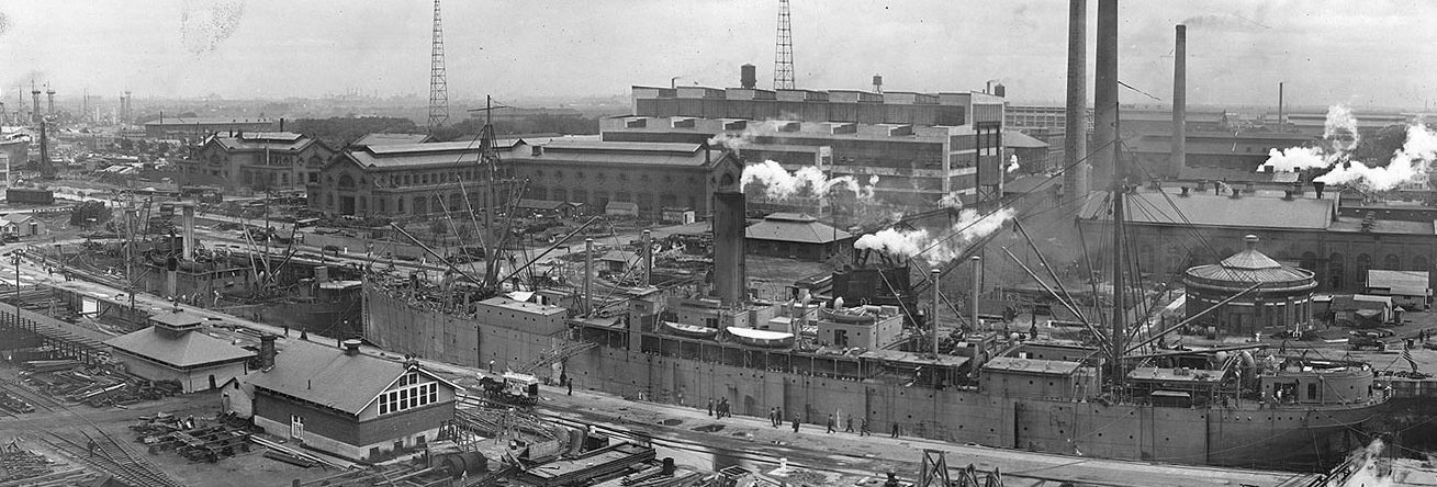 Philadelphia Navy Yard, Pennsylvania. View of Dry Dock # 2 and its surroundings, 15 August 1919. Present in the dry dock are USS Lake Gedney (ID # 3765-C), in center, and USS Minnesotan (ID # 4545), partially visible at right. Both ships were being prepared for decommissioning. In the distance is the Reserve Basin, with several older battleships visible, among them USS Iowa (Battleship # 4).